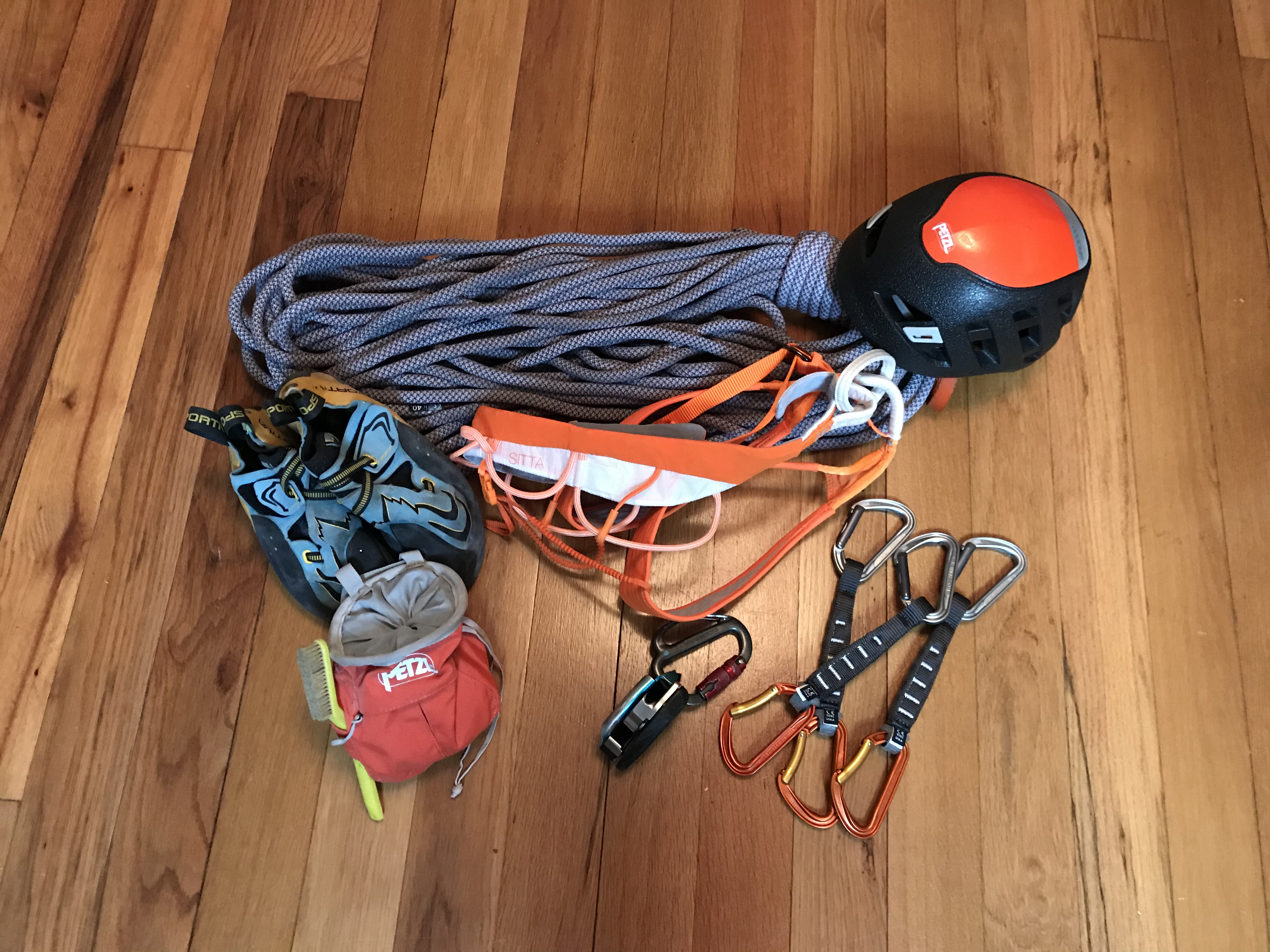 Gear including rope, harness, helmet, shoes, quick draws, belay device, and chalk bag.